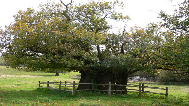 The Elizabeth Oak in Cowdray Park. This very old tree has a commemorative plaque erected on the occasion of Her Majesty's Golden Jubilee 1022033. Beyond the tree Steward's Pond can be seen.